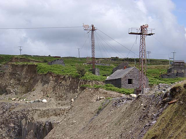 Blondins at Penyrorsedd quarry